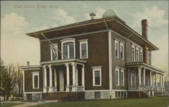 Postcard: Derby High School (Connecticut) in Derby, Connecticut, 1909 postmark Description: Store Web page states: "HIGH SCHOOL,1909,Derby,CT,color PC" (store's name of item), "Mailed, fine condition. Back: Divided. Danziger & Berman, New Haven." Caption (in red) on picture side of postcard, upper lefthand corner: "High School, Derby, Conn."